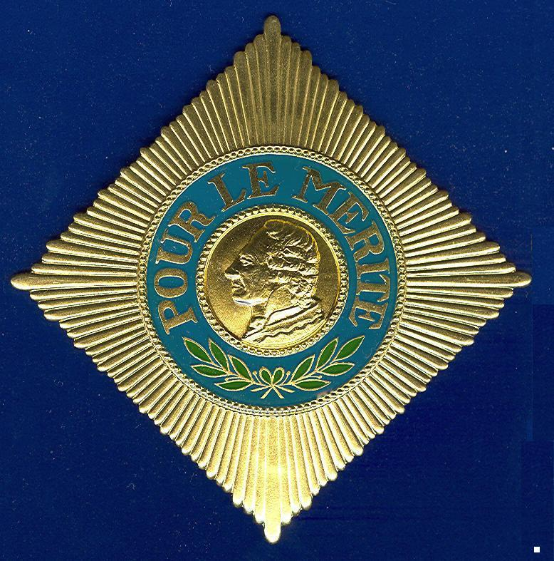 Chest star to the Grand Cross of the Prussain Order "Pour le Mérite" (replica).